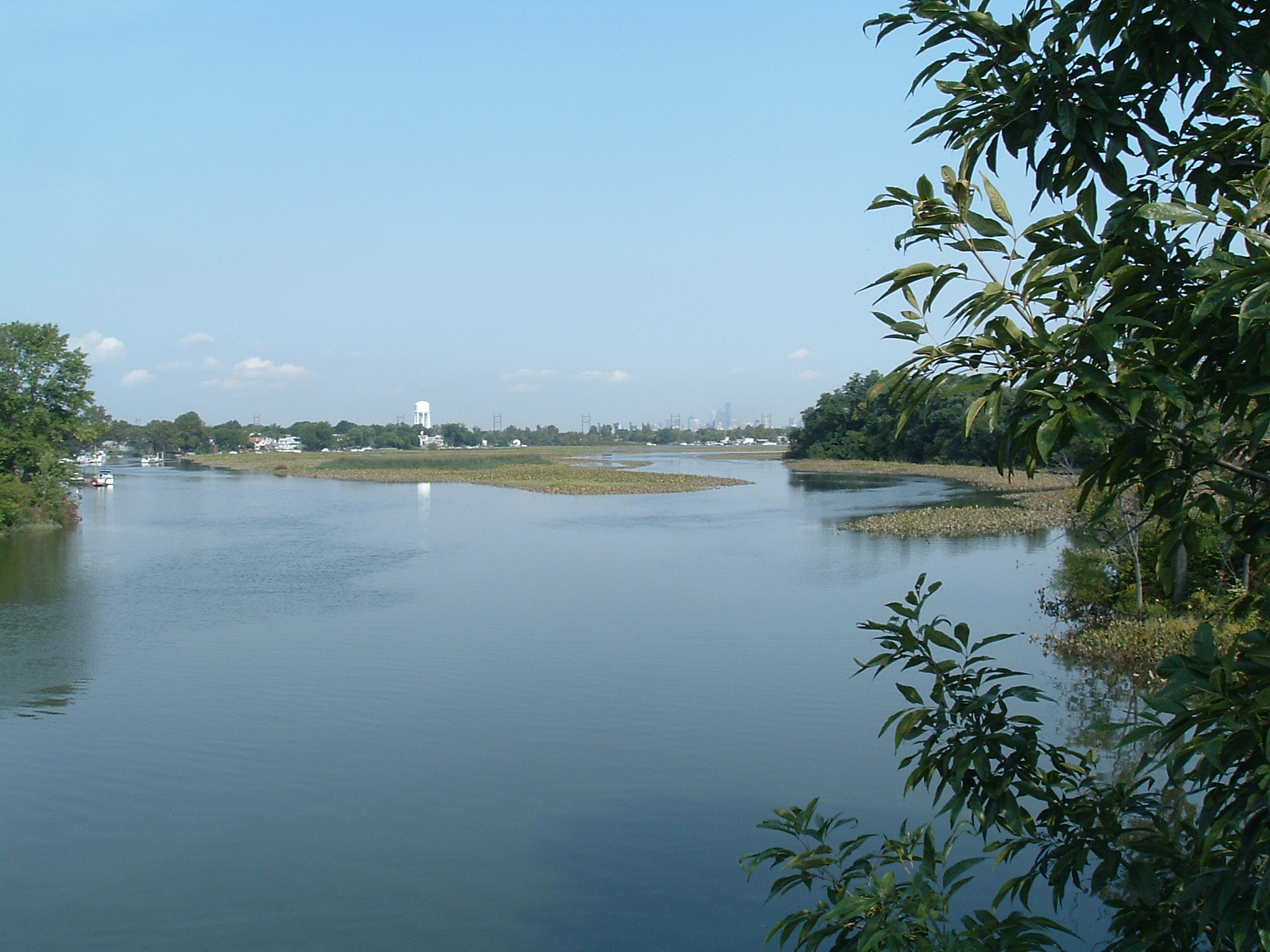 main stream Big Timber Creek river wetlands Westville, Gloucester County, Bellmawr, Camden County, New Jersey